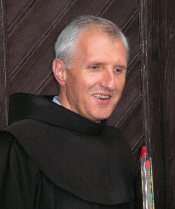 Stane Zore, archbishop of Ljubljana